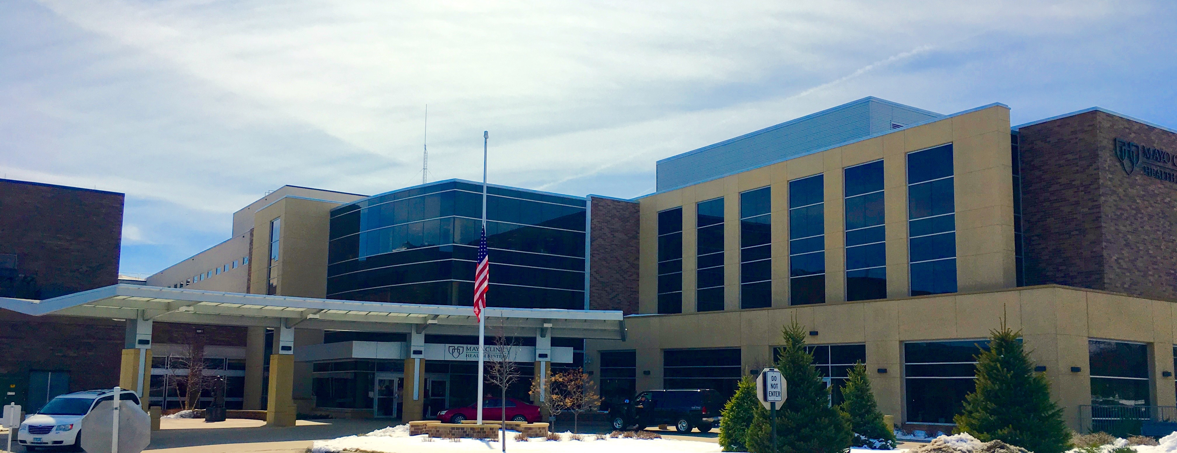 The Mayo Clinic Health System's Austin (MN) hospital and clinic. Formerly St. Olaf Hospital.